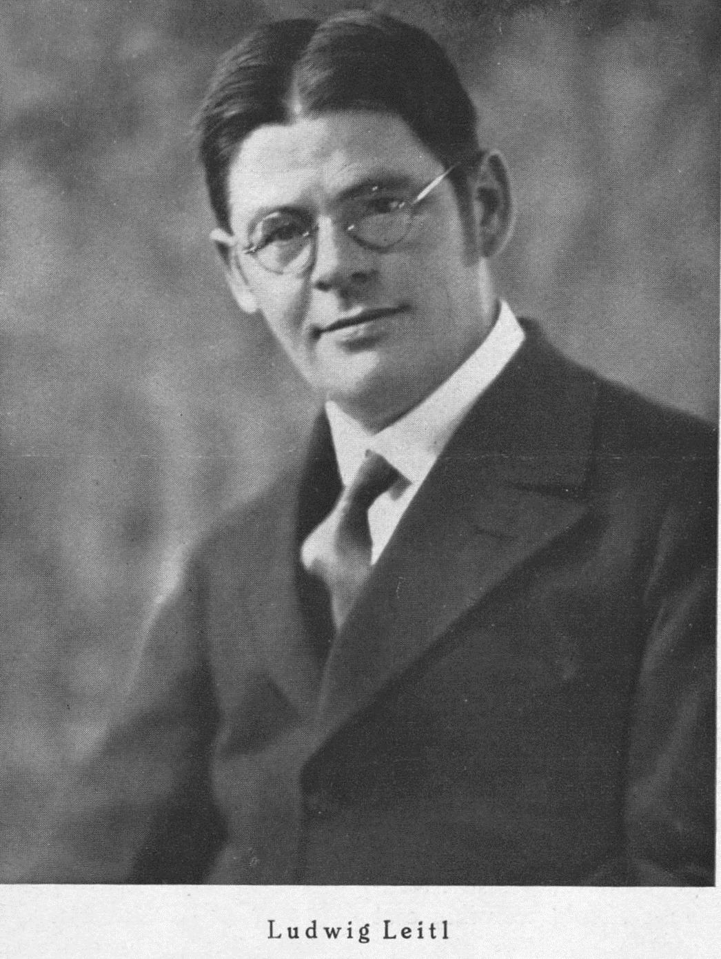 Bavarian writer Ludwig Leitl